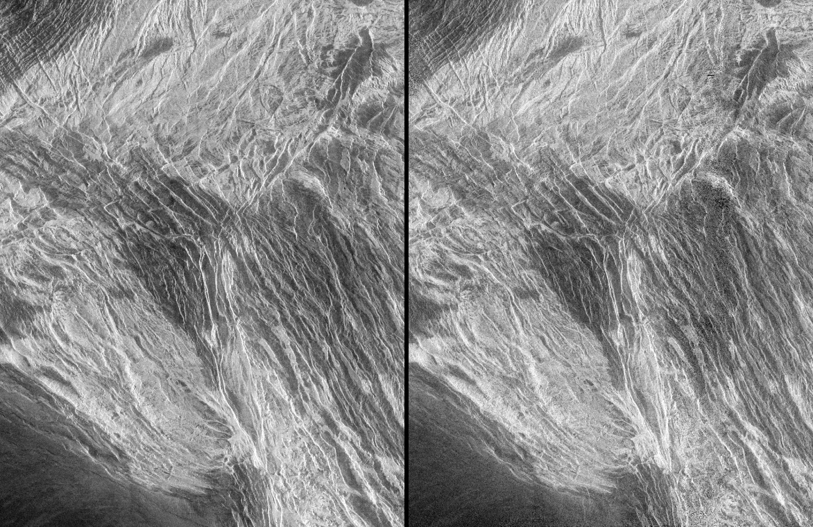 Crosseye-view stereogram of Maxwell Montes on Venus. Made from Magellan radar images, which were made in Left-Look and Stereo-Look mode. Left image was obtained with incidence angle (measured from vertical line) about 26.0°, right one with 33.4° (Guide to Magellan Image Interpretation, chapter 4, Table 4-1, chapter 5, The Geometry of Radar Imaging). Image size is 235×305 km.